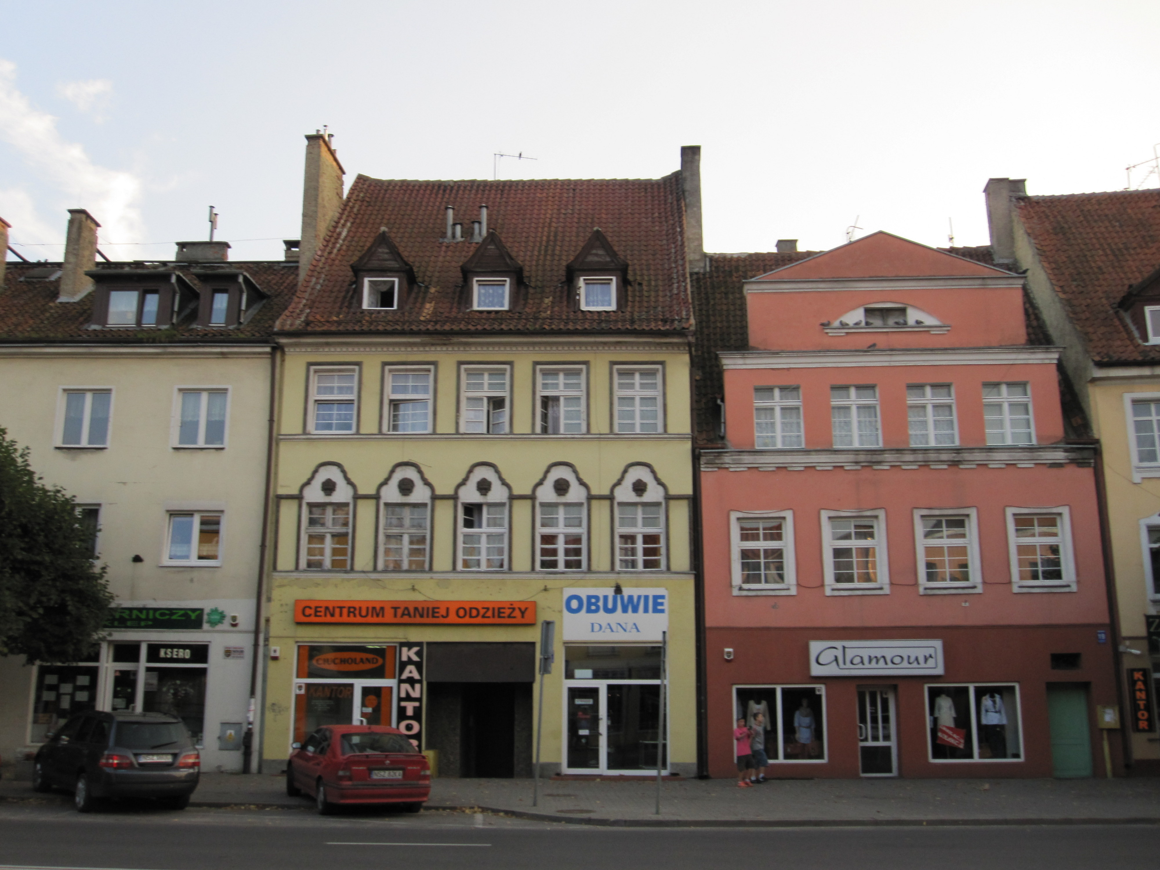 Szczytno - buildings on the 17 and 19 Odrodzenia street